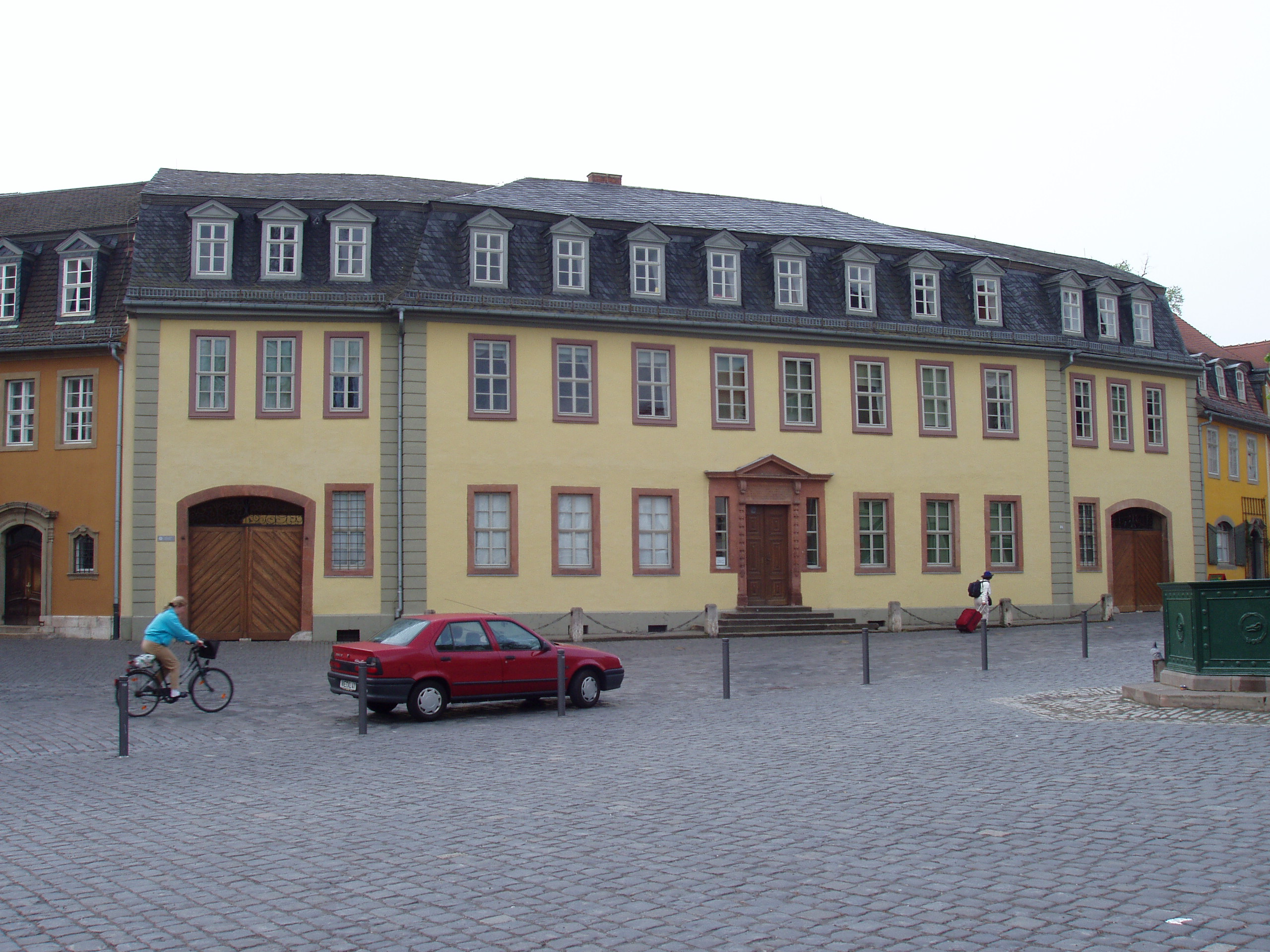 The Goethe House (Goethes Wohnhaus)